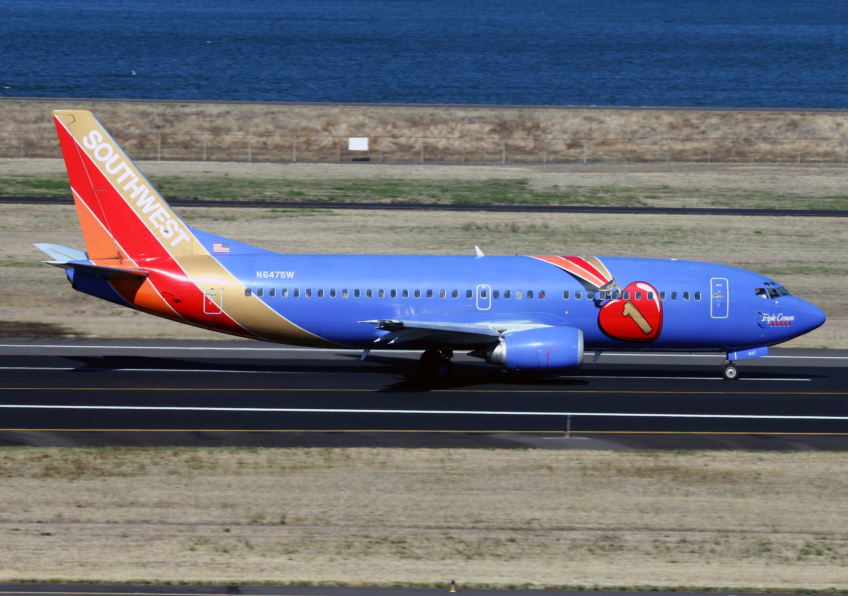 Southwest Airlines Boeing 737-300 (N647SW) painted in 'Triple Crown" special livery arriving at Portland International Airport, Portland, Oregon, United States.